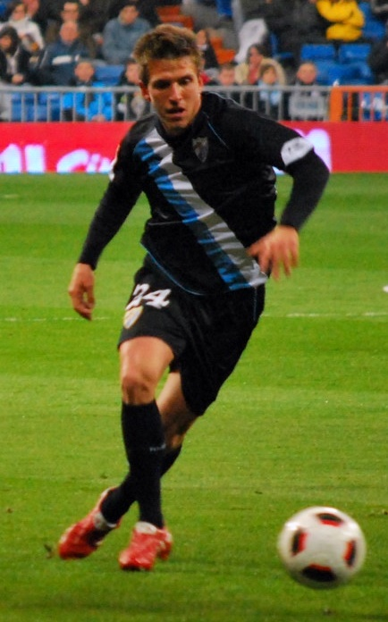 Spanish football player Ignacio Camacho while playing for Málaga CF